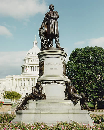 James A. Garfield Monument on the grounds of the United States Capitol, Washington, D.C.. The statue was sculpted by John Quincy Adams Ward.